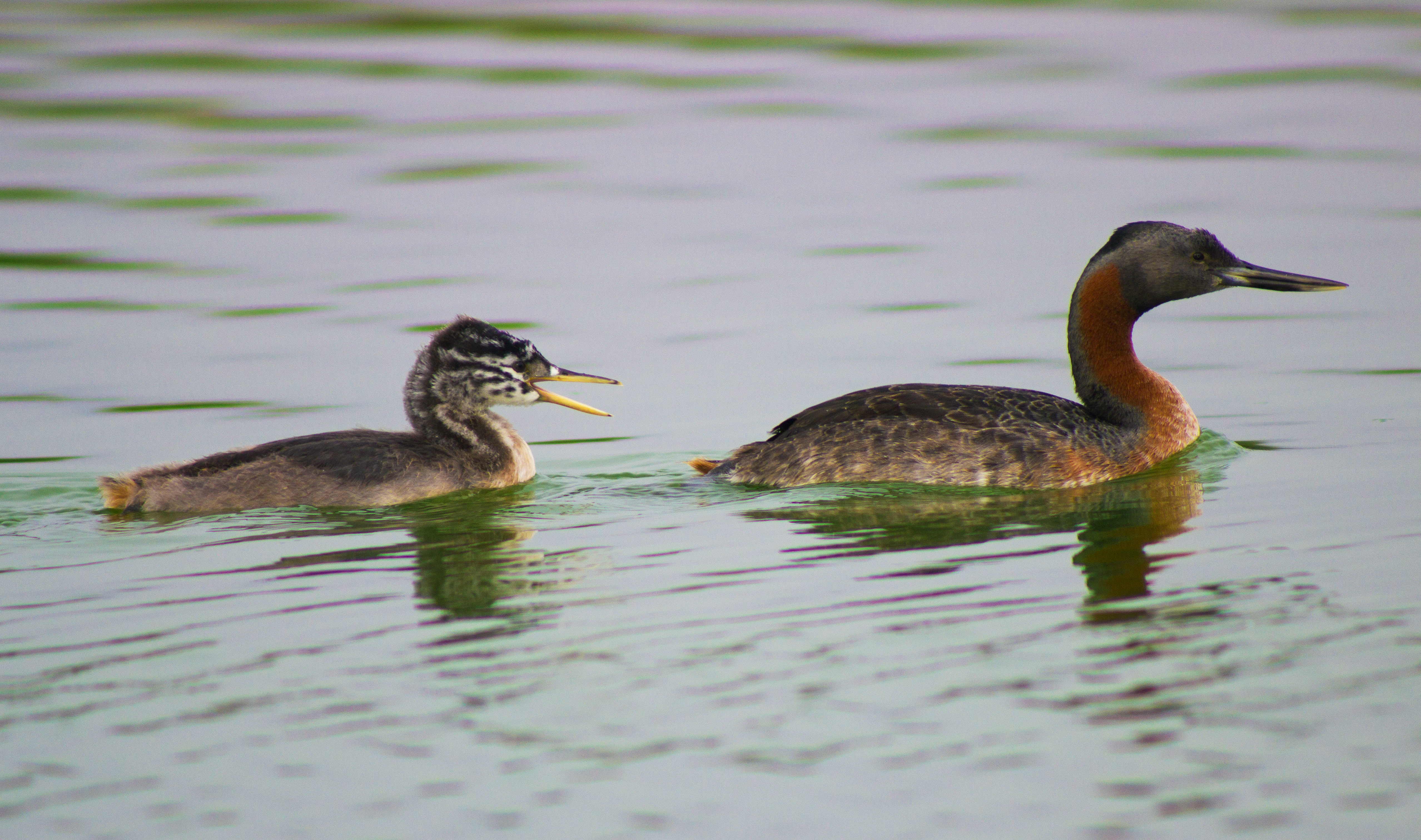 Podiceps major - Great Grebe - Villa Wetlands - Chorrillos District - Lima - Perú